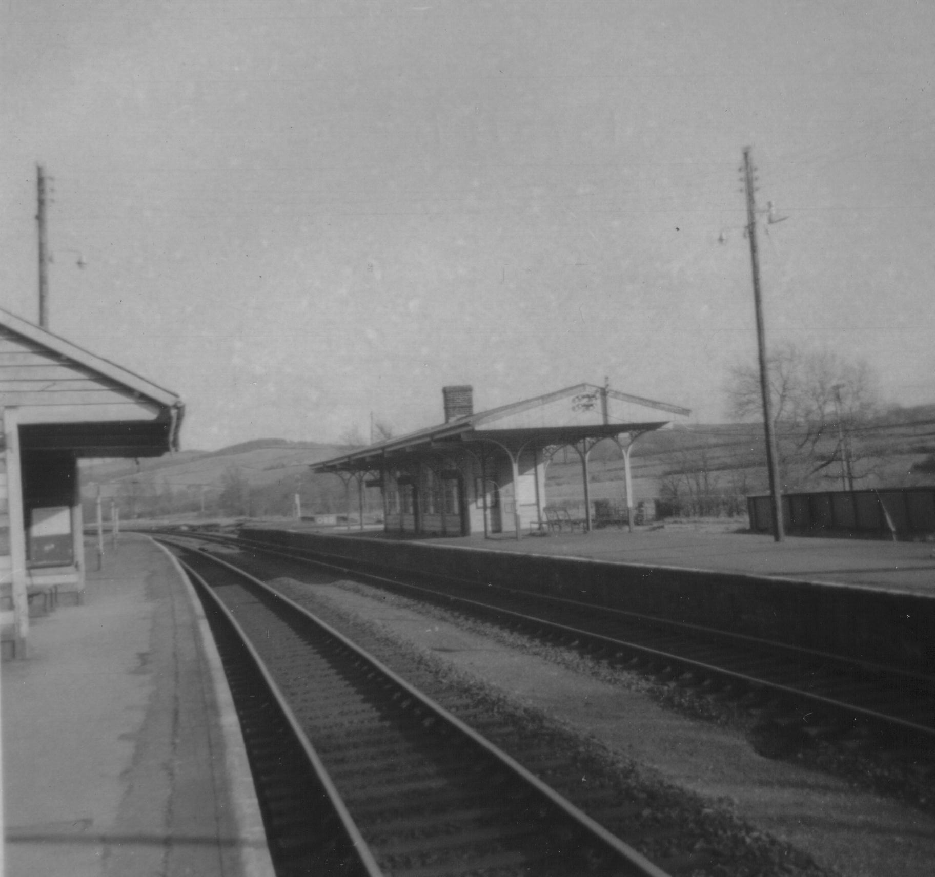 Yeoford station on the 'Tarka' line from Exeter to Barnstaple in Devon. An Ilfracombe bound train on 14 July 1969.